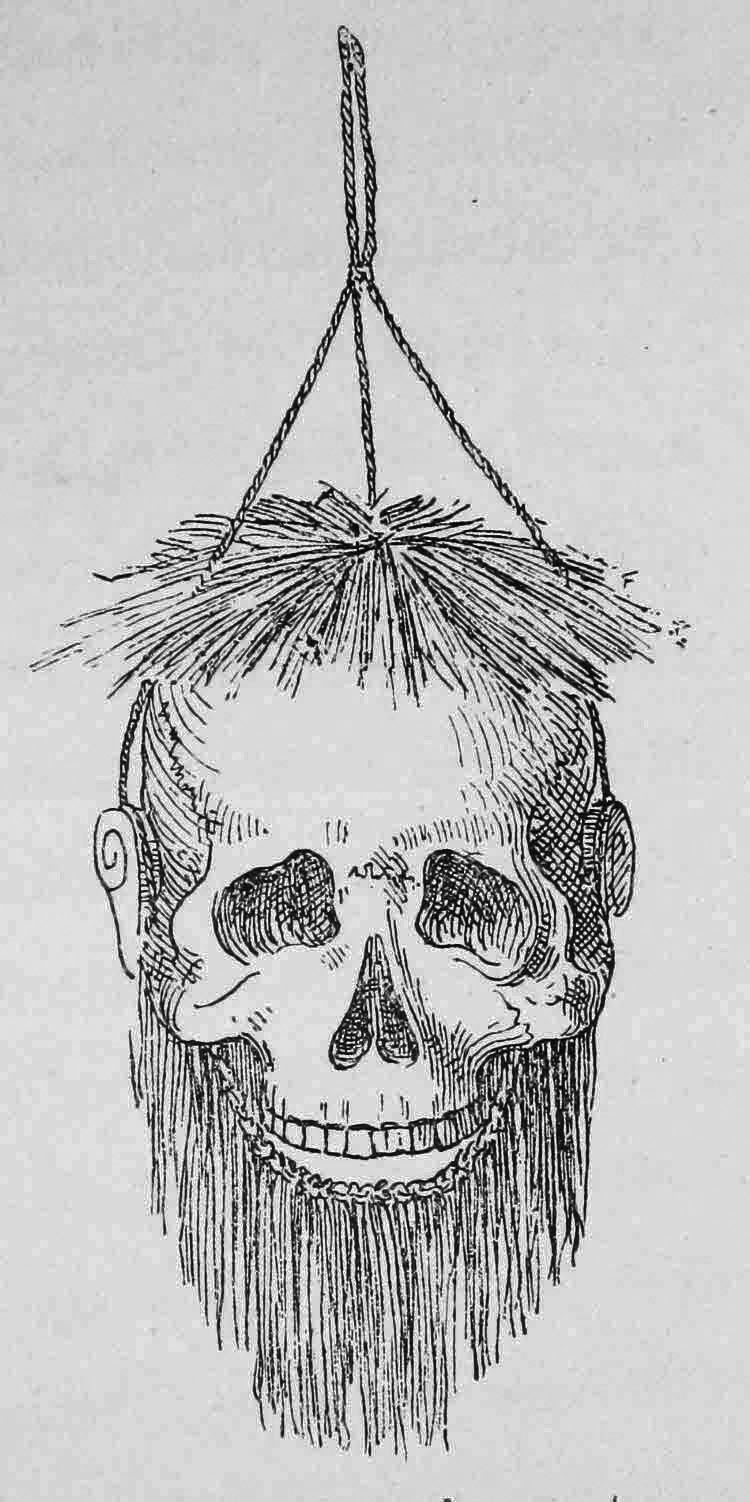 A sketch by Italian Explorer Elio Modigliani, depicting a human trophy (skull) belonging to a Chief in the Indonesian island of Nias.